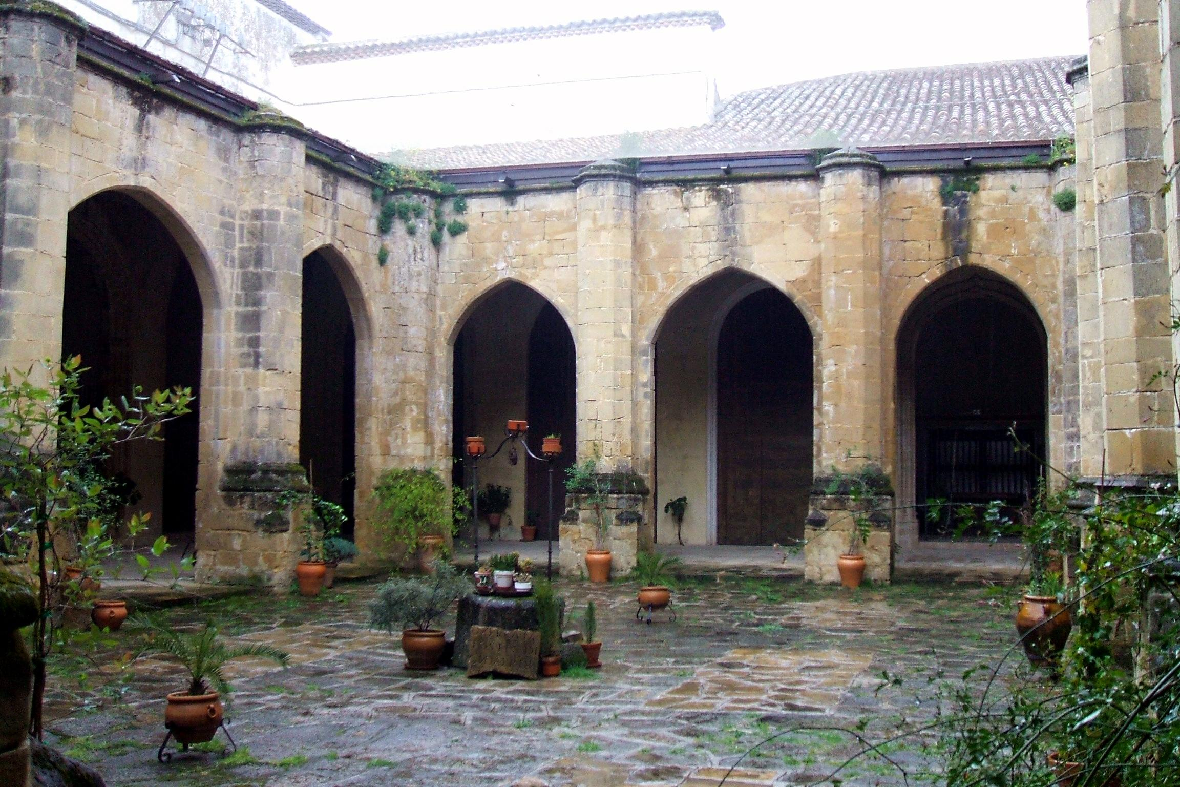 Claustro de la Catedral de Baeza (Jaén, Andalucía, España)